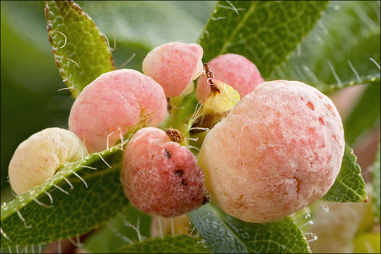 The fungus Exobasidium rhododendri. Specimen photographed in Možnica valley, East Julian Alps, Posočje, Slovenia EC. See original source for more collection notes.